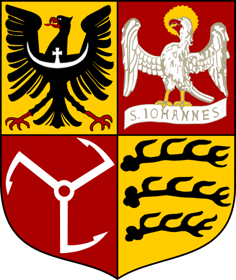 Coat of arms of the district of Oels.